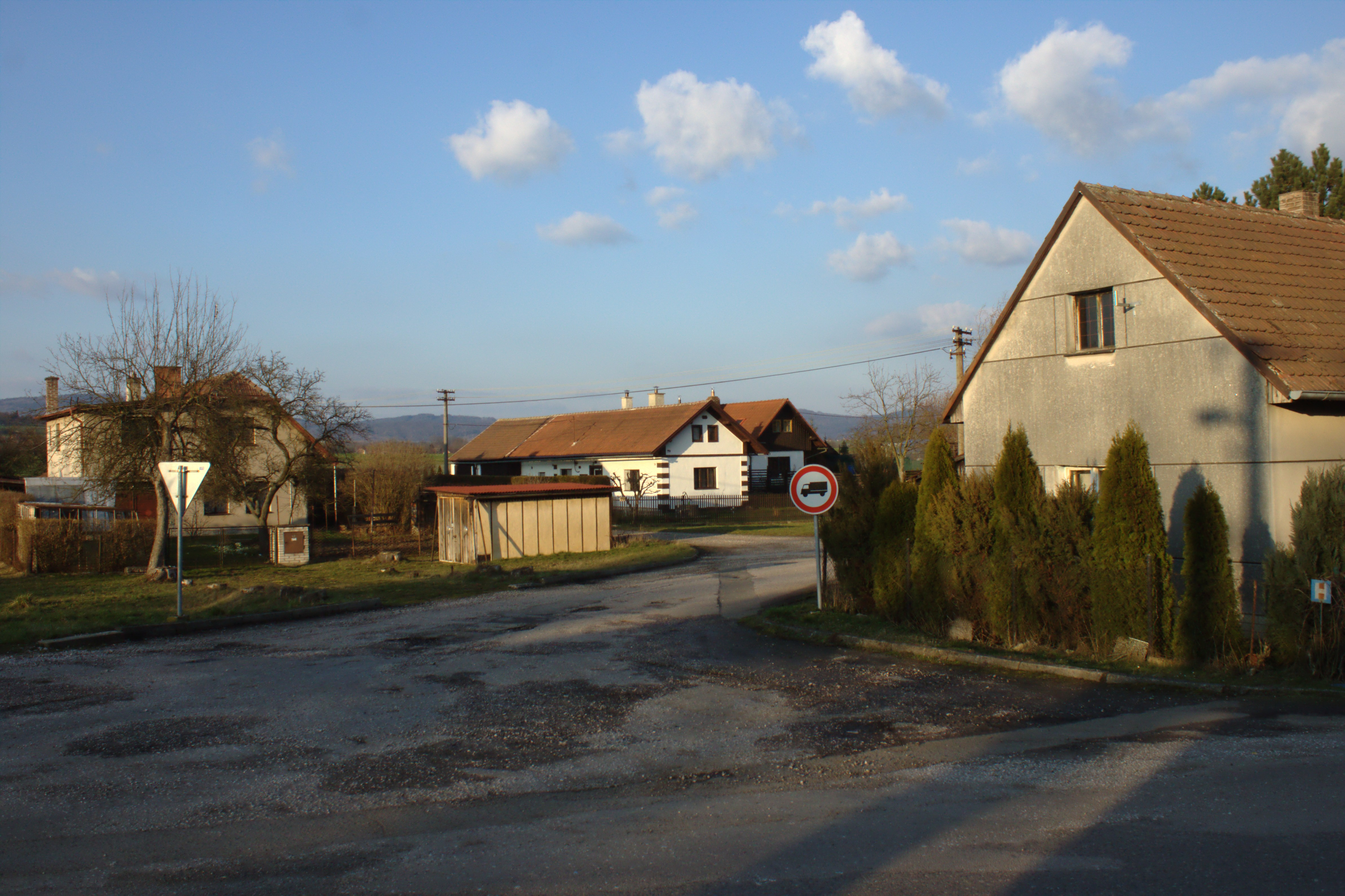 Buildings in the village of Holín near Jičín